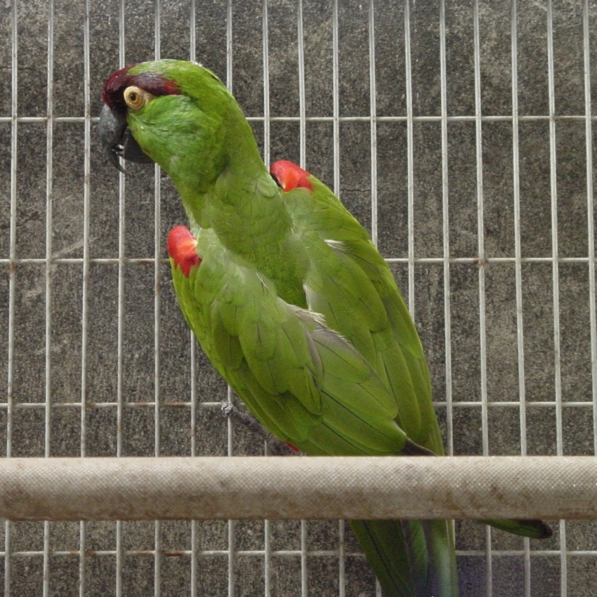 An adult Maroon-fronted Parrot in a cage.